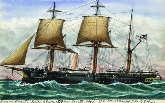 "Luise" 1872 Watercolour over black pen and India ink on strong paper, detached from an album, 1887 to 1912. Monogrammed, dated and fully inscribed. cm (in) approx. 16.8 x 25.5 cm (6.6 x 10 in) Exact portrait of warship of the Imperial Navy, still running under support sails, mostly made in 1890 and a little later. Corvette with full flag in side view. "Luise". Medium: Pen and Ink and Watercolor Size: 16.8 x 25.5 cm. (6.6 x 10 in.)